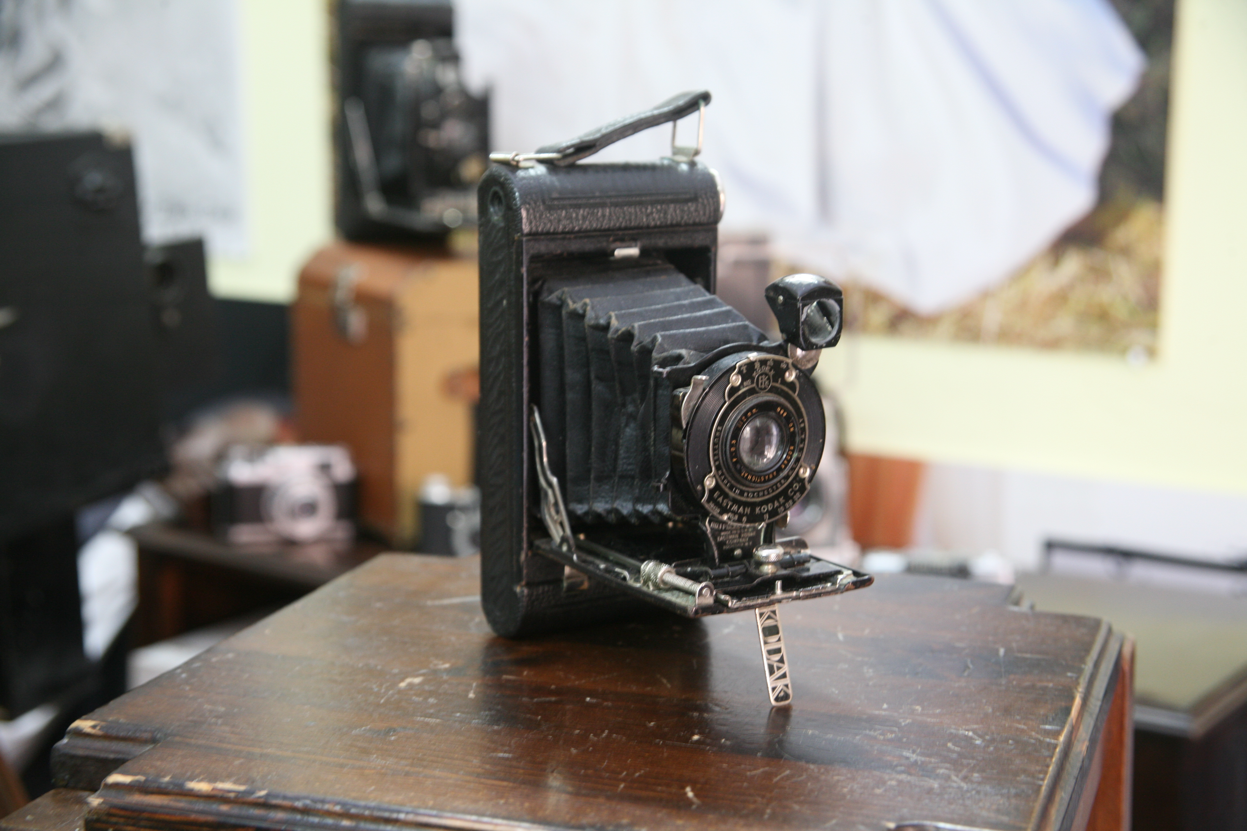 Kodak No. 1 Serie II è una fotocamera a pellicola A 120 costruita negli USA negli anni 1922-1931